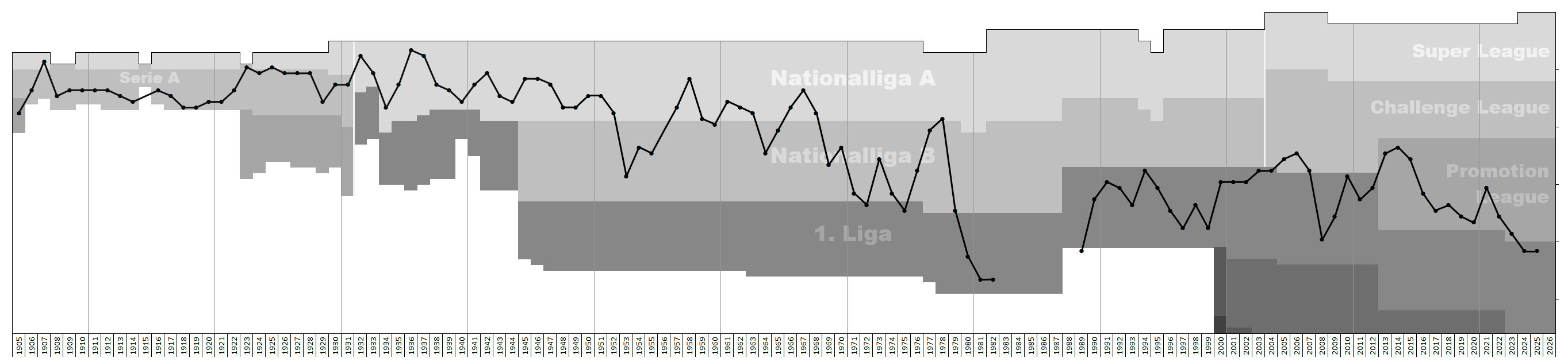 Chart of end-season table positions for SC Young Fellows Juventus in the Swiss football league system. Data source: RSSSF